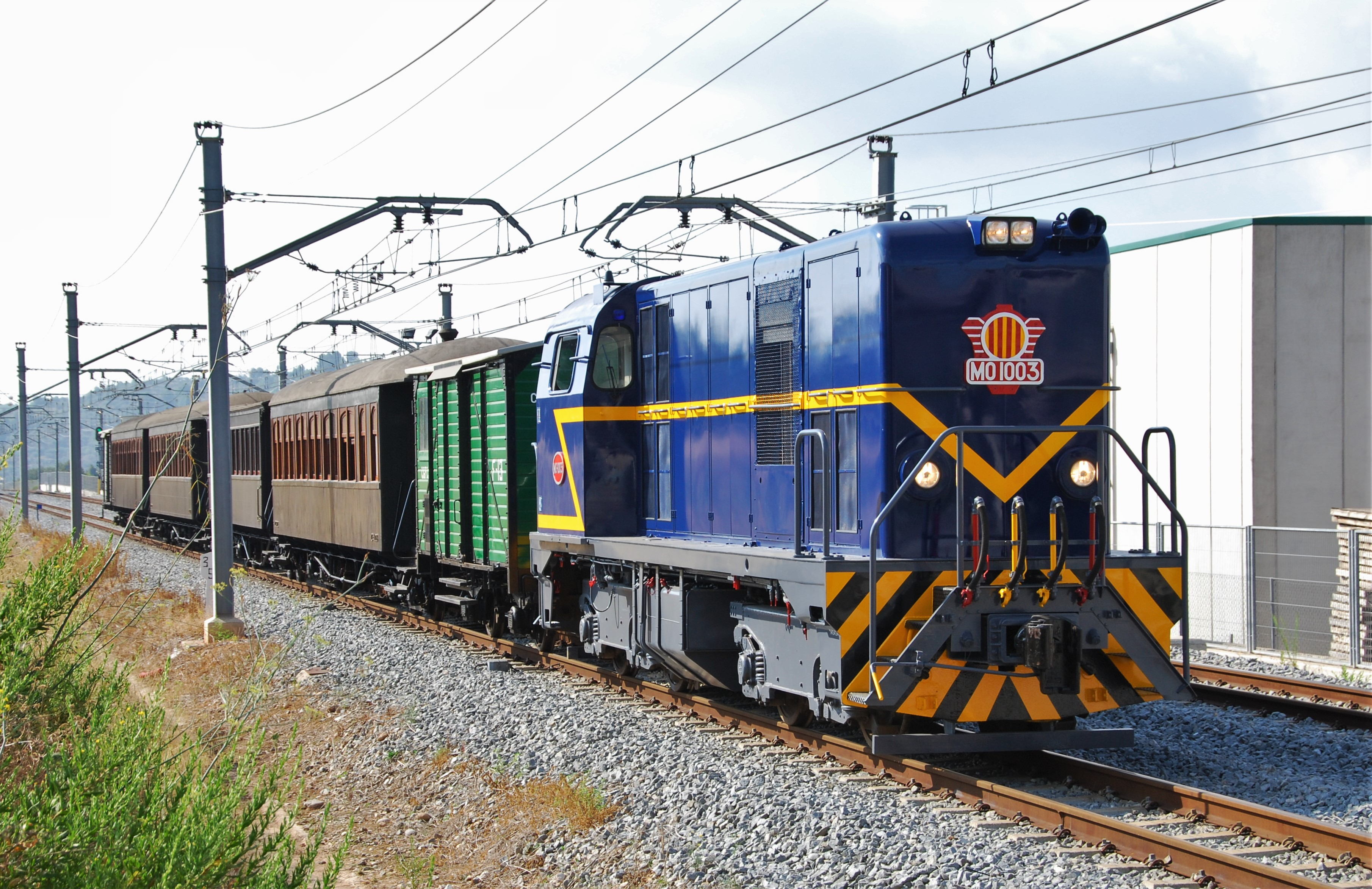 The diesel locomotive 1003 of Ferrocarrils de la Generalitat de Catalunya (FGC), during its first commercial trip as a heritage locomotive, in Olesa de Montserrat.